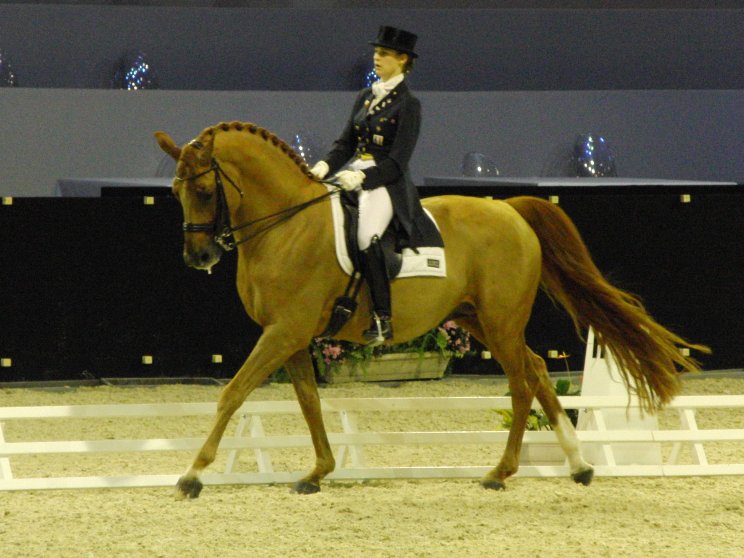 Camille Cheret Judet and Mister Grand Champ, Selle français stallion - Paris's Cup Pro Elite de dressage - Salon du cheval de Paris 2009, France